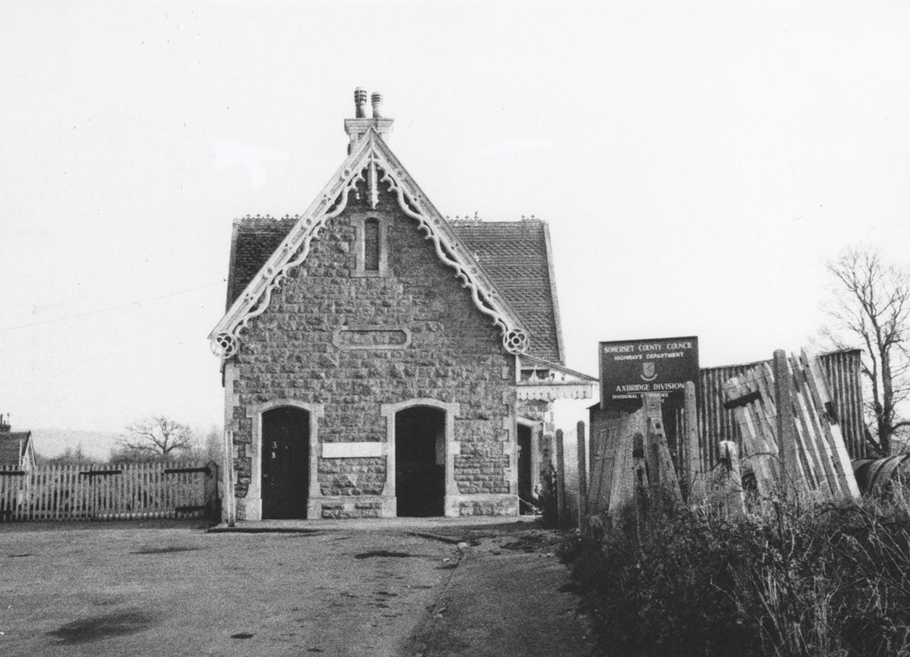 Sandford and Banwell railway station, late 1960s, in use as a transport and road maintenance depot for Somerset County Council